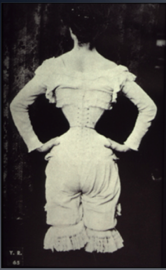 Photograph